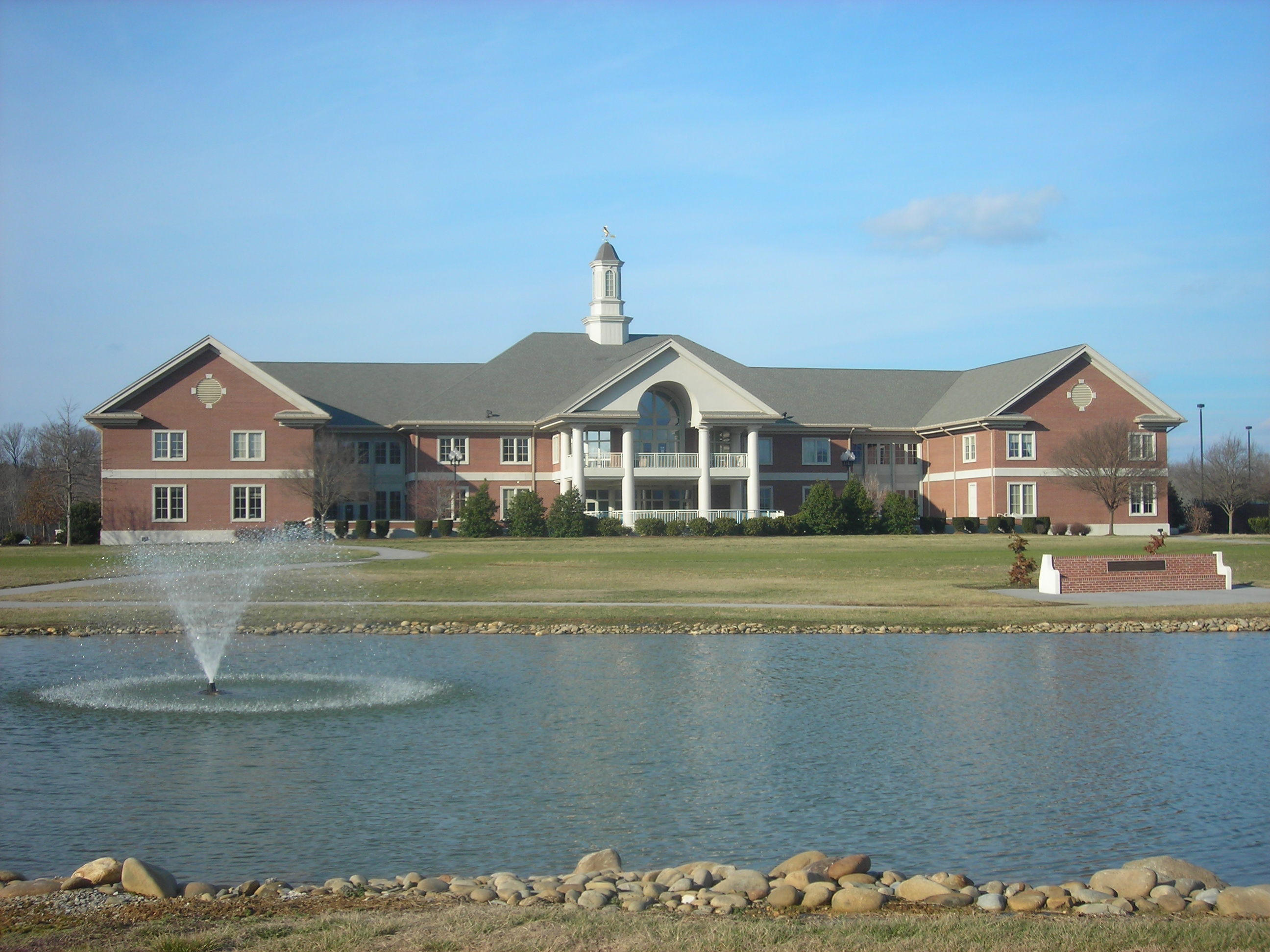 Maples-Marshall Hall is the original building of the Sevier County Campus of Walters State Community College. It houses the campus' administrative offices, library and close to a dozen classrooms.